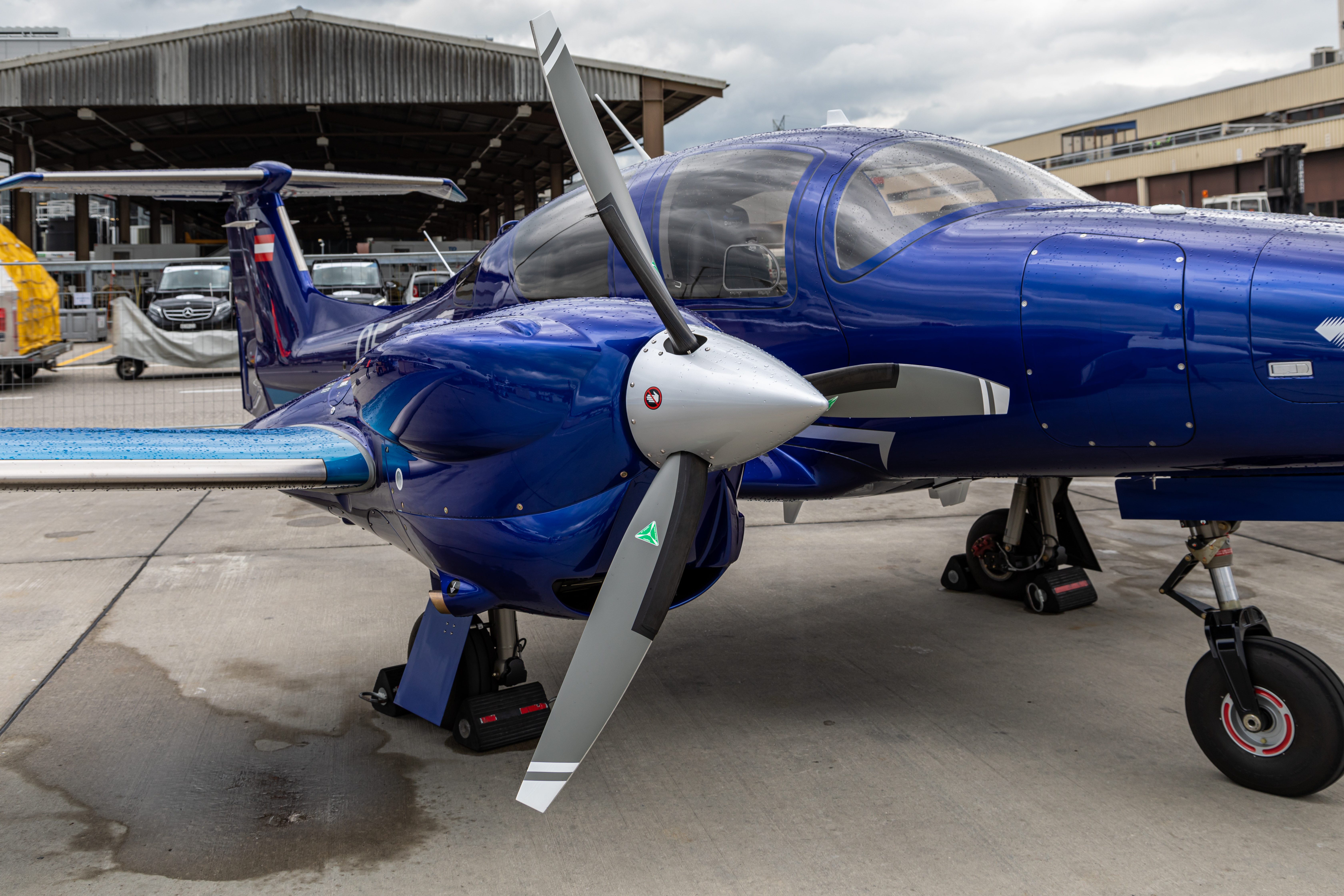 Engine of a Diamond DA62